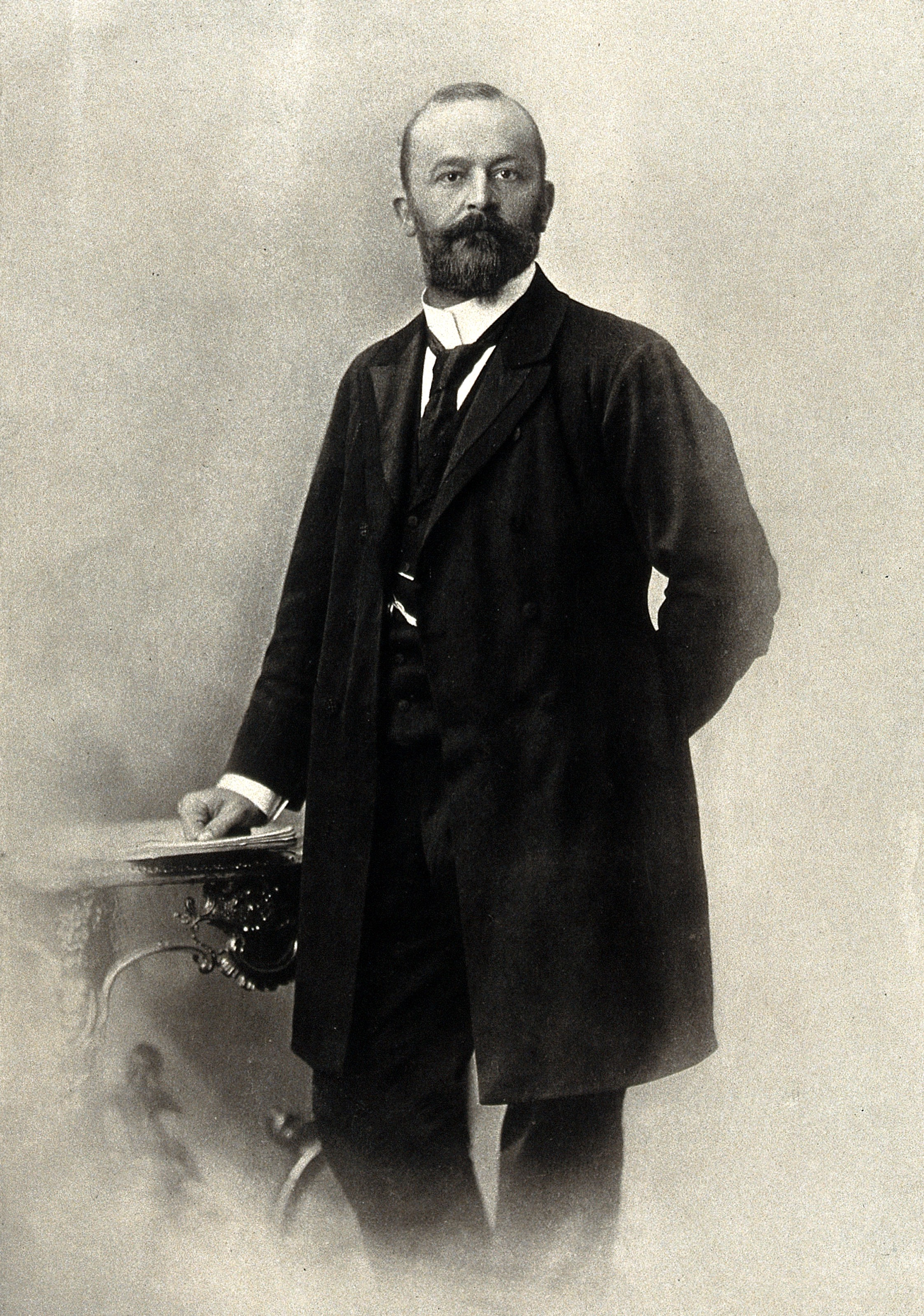 Alexander Kolisko. Photogravure. Iconographic Collections Keywords: portrait prints